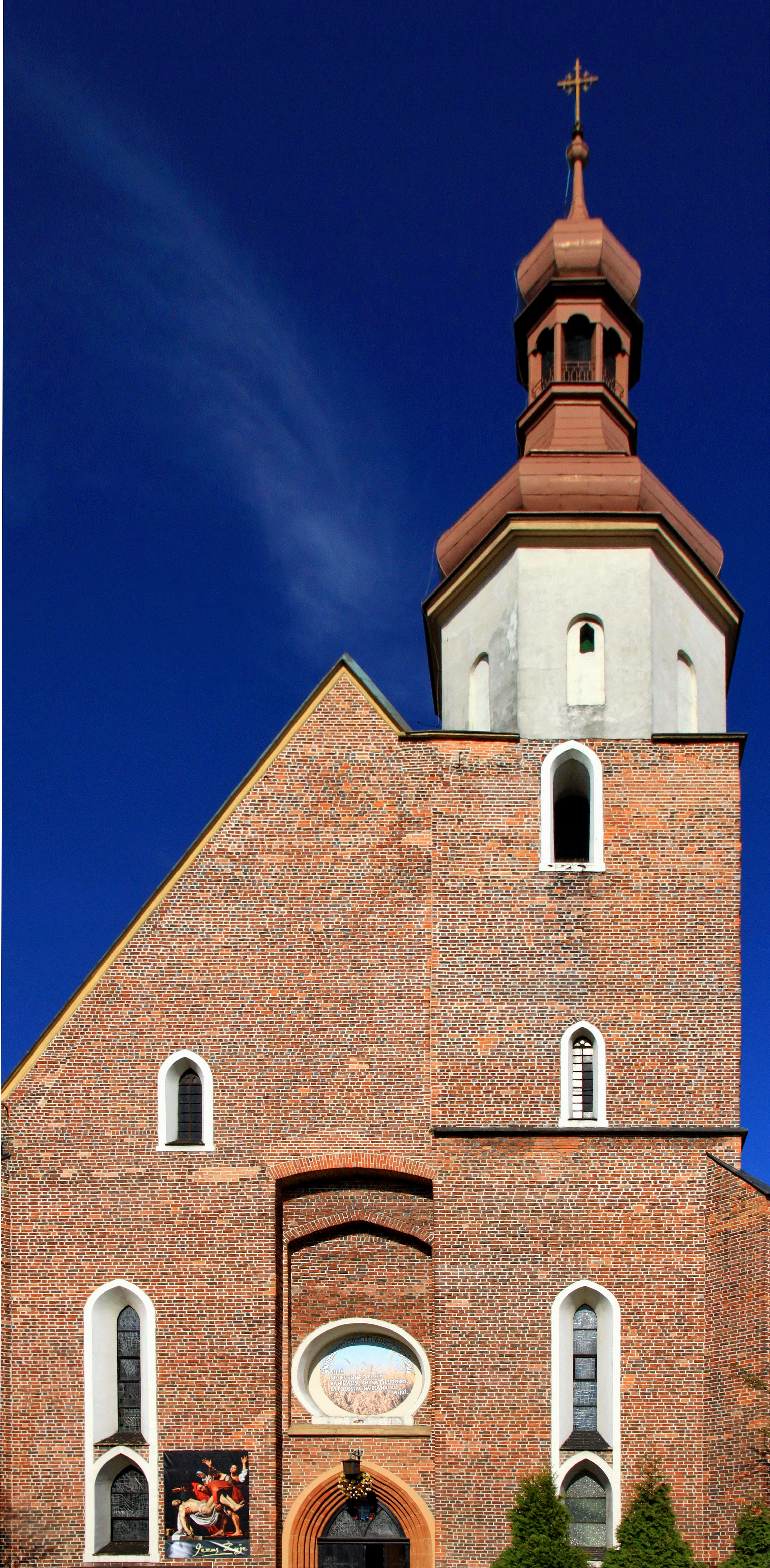 Żory, Saints Philip and James parish church, build in 15th century, 2nd half of 17th century, 1947